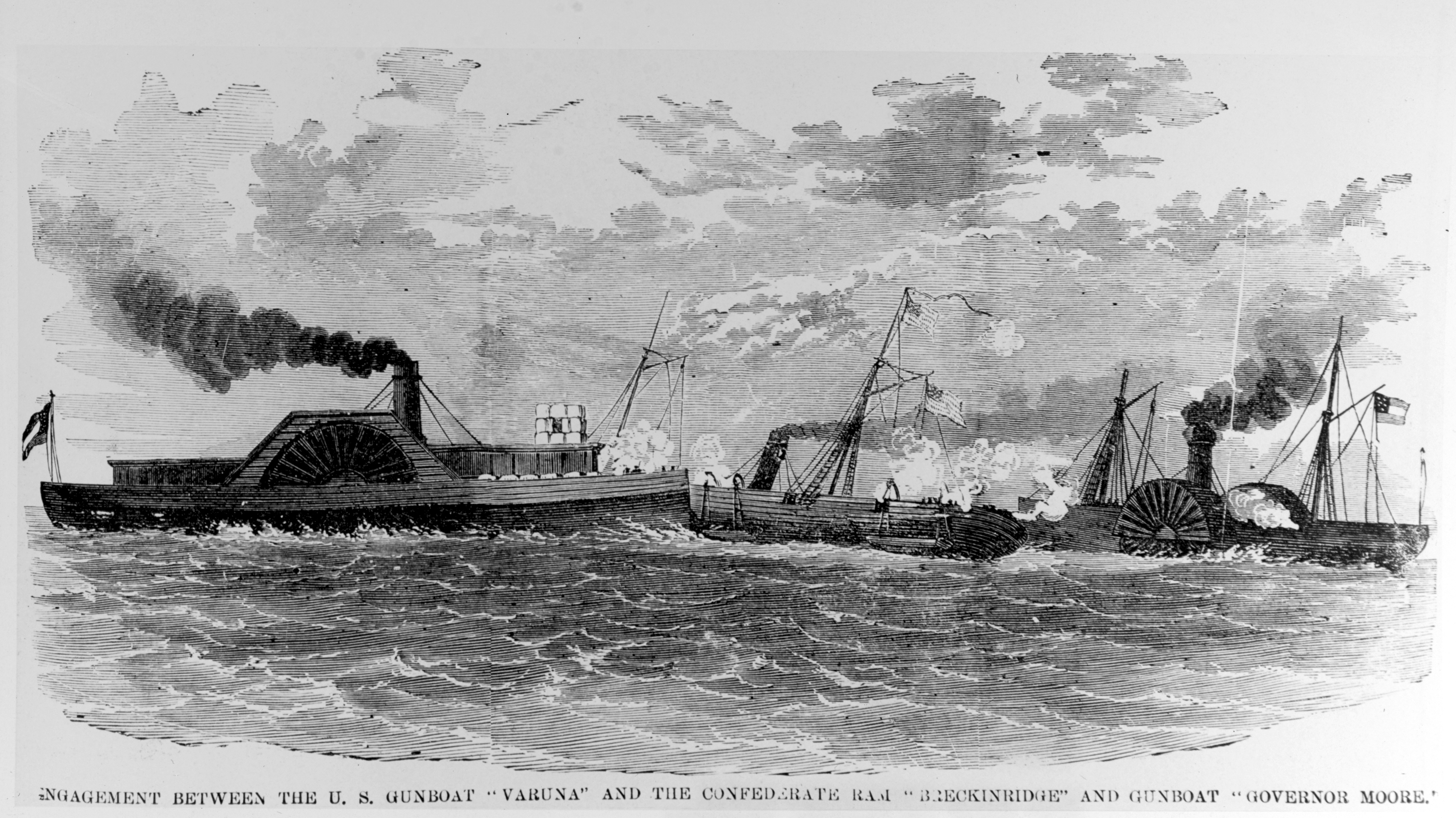 From U.S. Navy public domain Photo #: NH 59077 "Engagement between the U.S. Gunboat 'Varuna' and the Confederate Ram 'Breckinridge' and Gunboat 'Governor Moore'." Line engraving published in "The Soldier in Our Civil War", Volume I. It depicts USS Varuna in the center, being rammed by a Confederate ship identified as "Breckinridge" (at left) while engaging CSS Governor Moore (at right) during the battle off Forts Jackson and St. Philip, 24 April 1862. The side-wheel steamer identified here as "Breckinridge" (General Breckinridge), is more probably the Stonewall Jackson. U.S. Naval Historical Center Photograph.